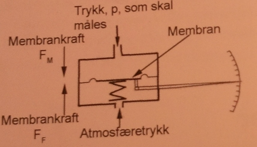 This is a membrane manometer.